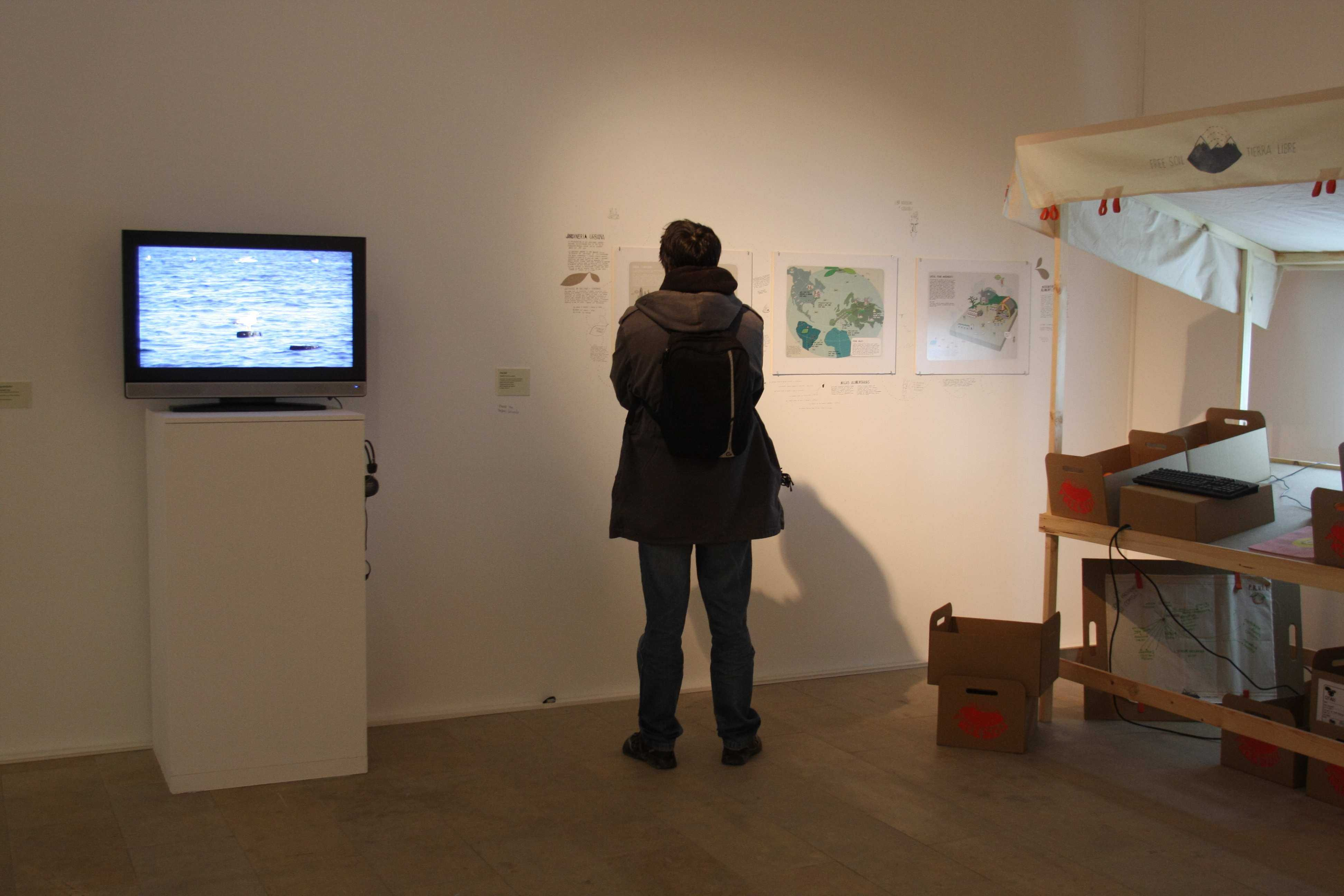 Ecomedia